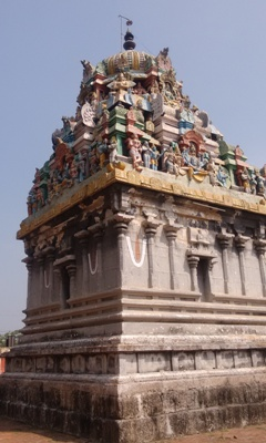 ThanjavurManikumdraperumaltemple தஞ்சாவூர் மணிகுன்றப்பெருமாள்கோயில்